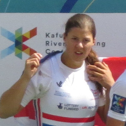 Podium 2015 Coxless 4 GBR : Rebecca Chin, Karen Bennett, GOODERHAM, Lucinda and NORTON, Holly